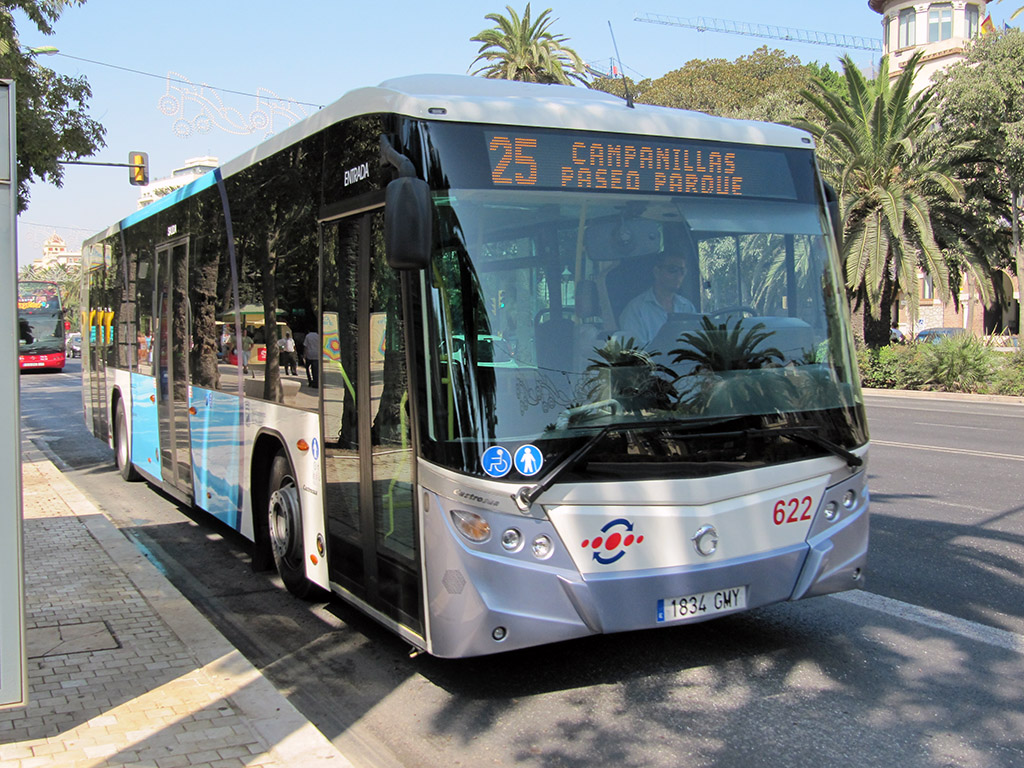 City bus of the EMT Málaga. Motor: Irisbus Iveco Citelis. Bodywork: Castrosua Magnus II.